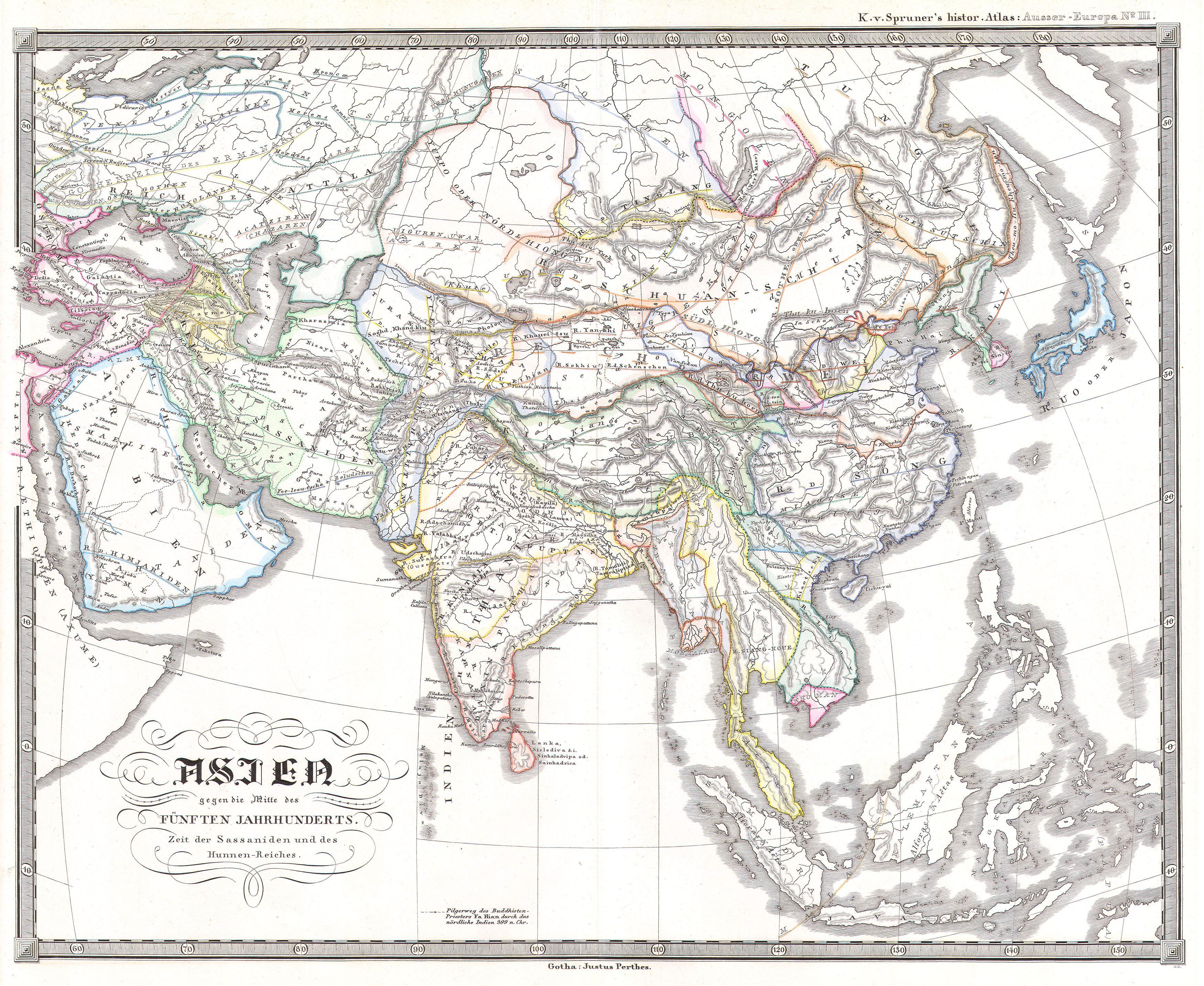 This fascinating hand colored map depicts Asia at the middle of the 5th century. This period corresponds with the period of the great Sassanid Empire and the Song dynasty of China. The Sassanid were a Zoroastrian Persian dynasty hailing from modern day Iran. All text is in German. Map was originally part of the 1855 edition of Karl von Spruner’s Historical Hand Atlas.